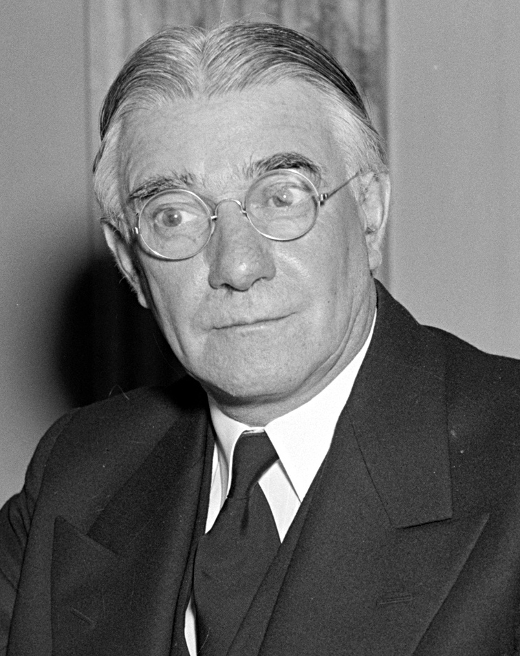 Charles A. Wolverton, US Representative from New Jersey